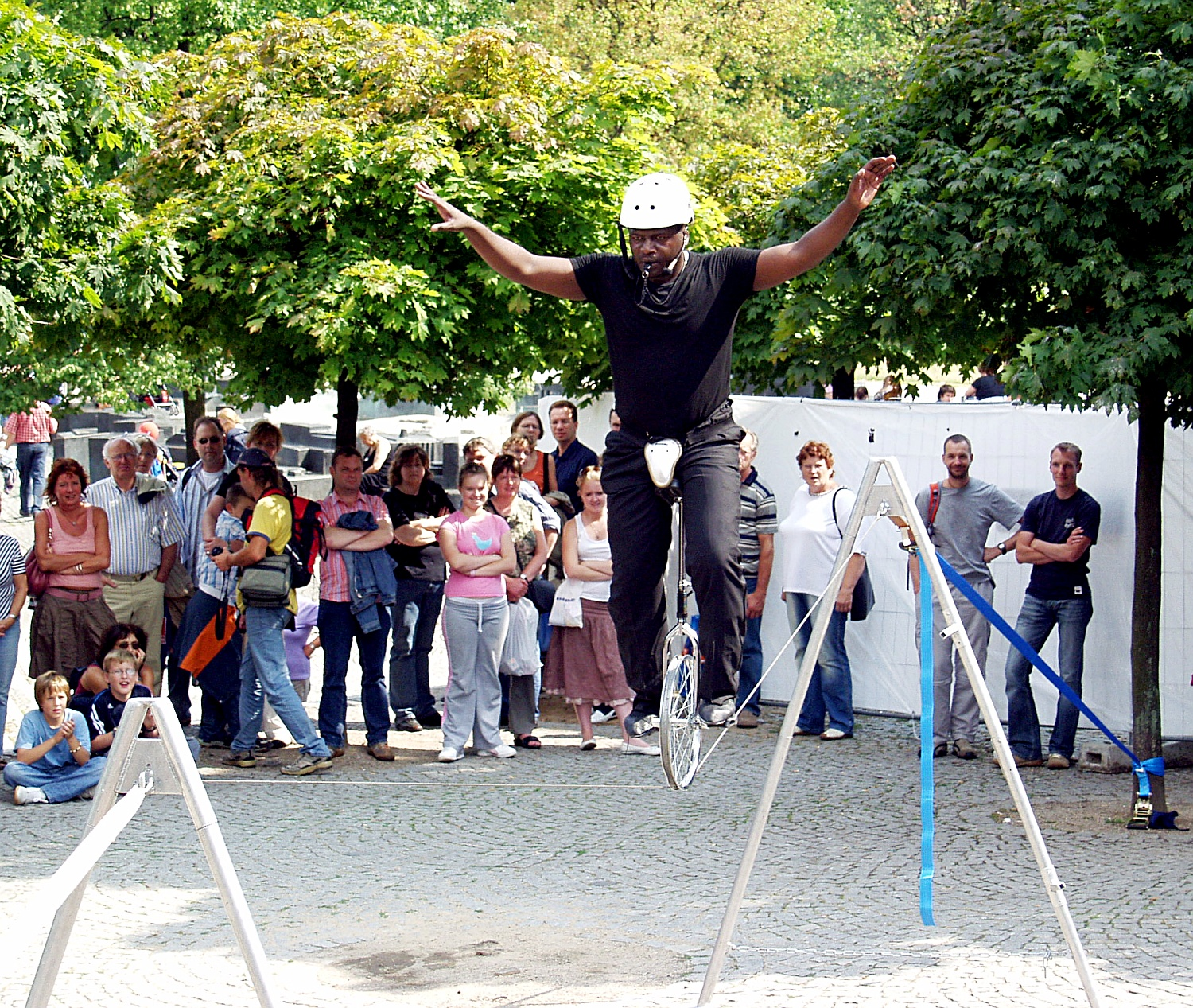 Tightrope artist in Cologne, Germany